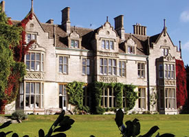 View of Rose Hill School, Alderley, Gloucestershire